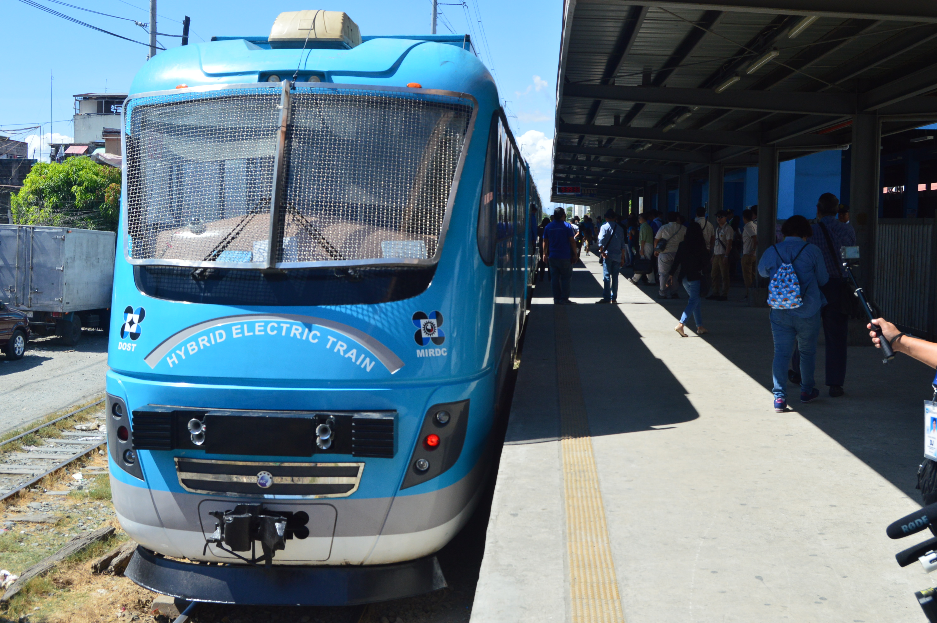 The Department of Science and Technology new Hybrid Electric Train waiting at the Philippine National Railways Alabang Station for its maiden trip. Tagalog: Ang Hybrid Electric Train ng Department of Science and Technology nag-aabang sa Philippine National Railways Alabang Station para sa kauna-unahang biyahe nito.